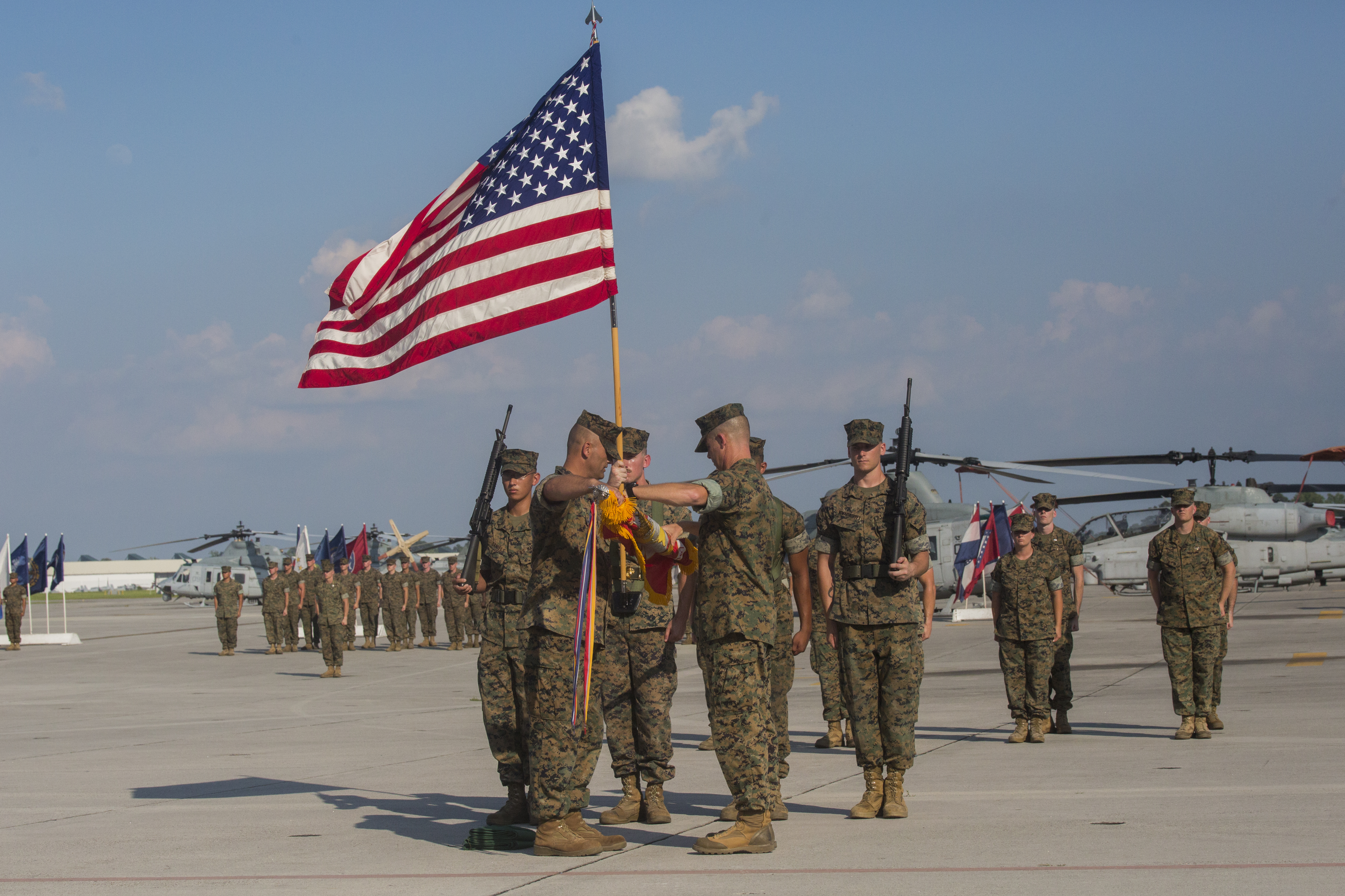 Lieutenant Colonel David B. Moore, (right), the commanding officer of Marine Light Attack Helicopter Squadron 467, and Sgt. Maj. John M. Kennedy, the squadron sergeant major, case the units’ colors during the deactivation ceremony of HMLA-467 at Marine Corps Air Station New River, N.C., June 16, 2016. The squadron served in numerous theaters to include supporting unit deployment programs in Japan, attaching to Marine Expeditionary Units, and providing security to ground troops during Operation Enduring Freedom in Afghanistan.